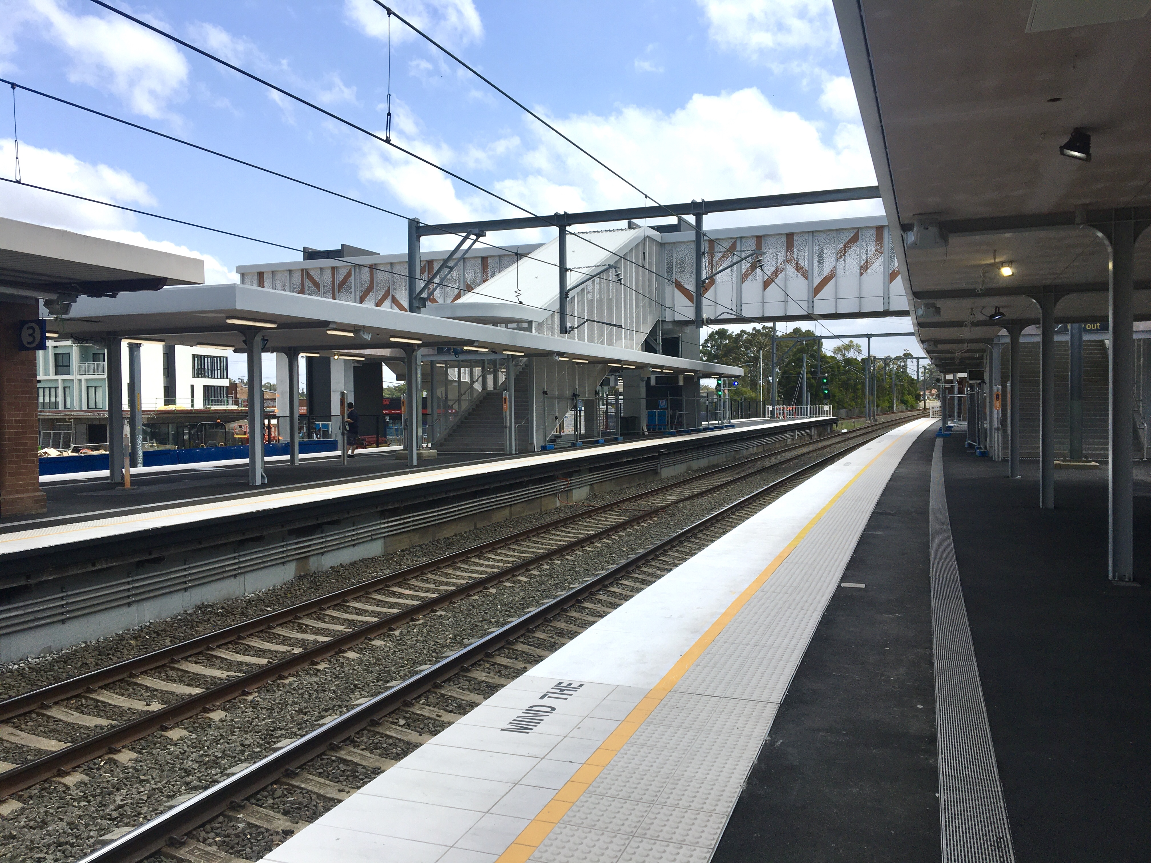 Depicted place: Rooty Hill railway station